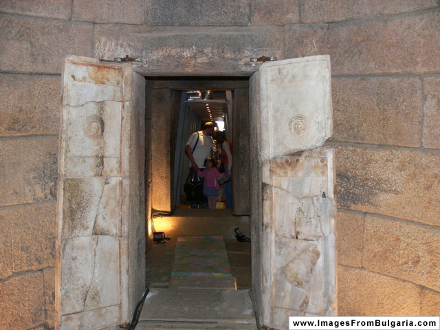 The Thracian tomb "Goliama Kosmatka", Bulgaria